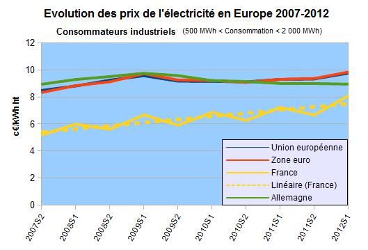 Electricity prices trends in Europe for industrial consumers, 2007-2012 data source : Eurostat